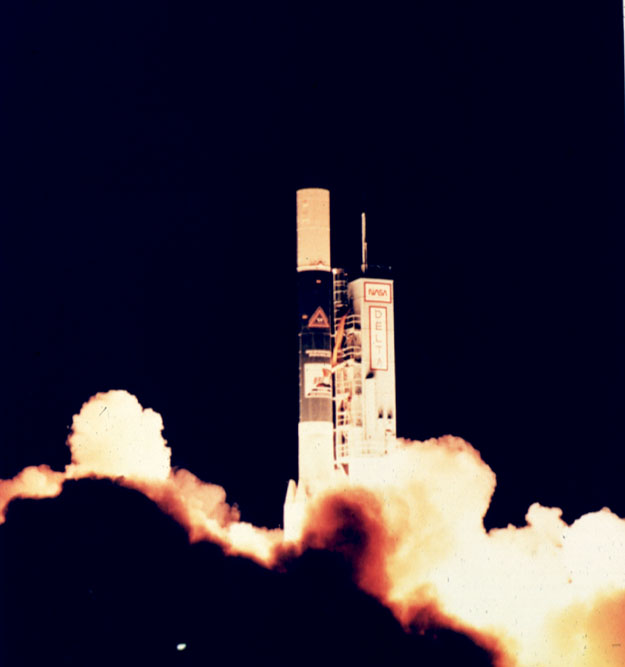 Launch of the COBE spacecraft November 18, 1989. The launch of the only Delta 5920 with the Cosmic Background Explorer.